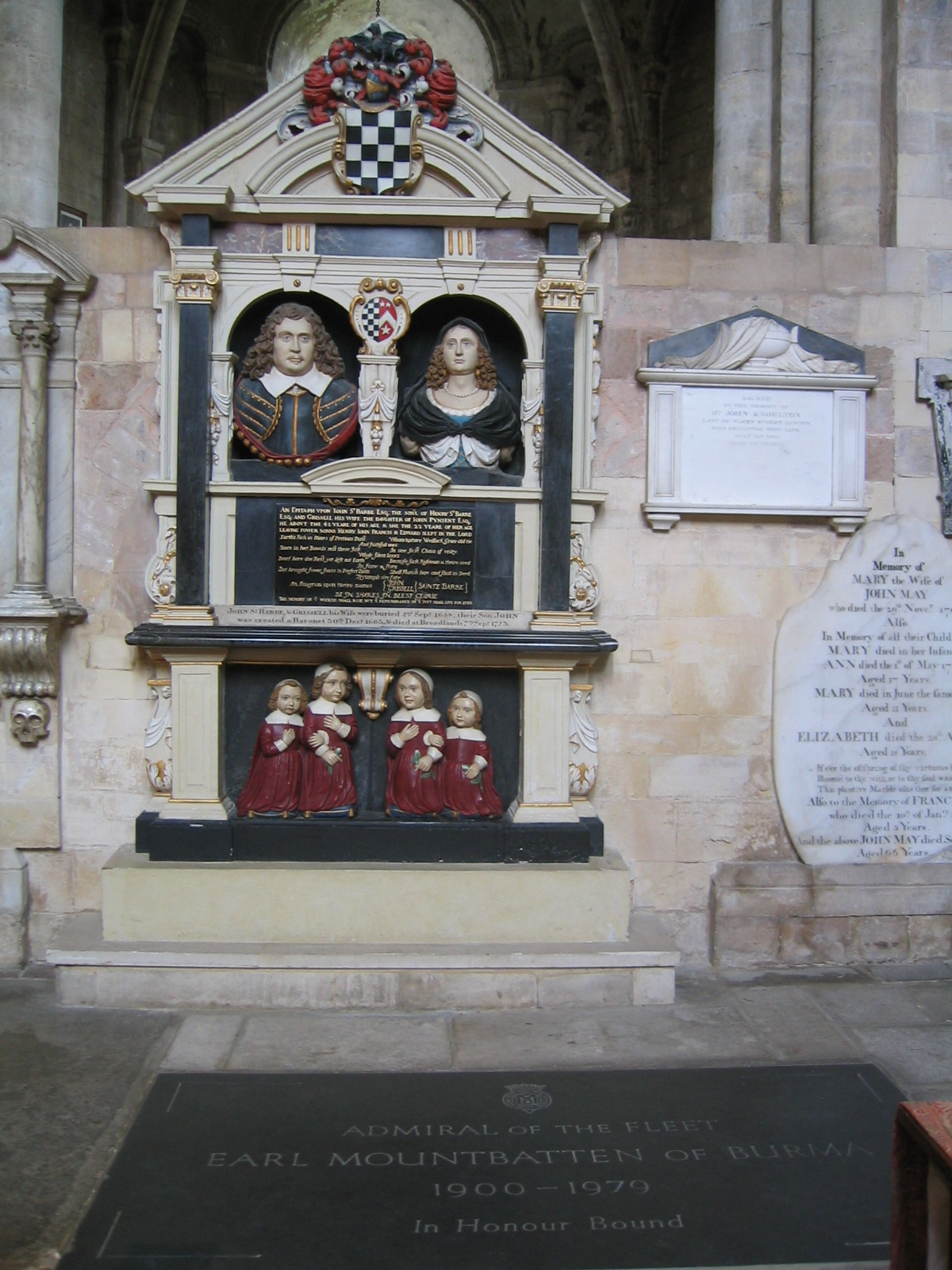 Photo including the tomb of Earl Mountbatten of Burma (on the floor) in Romsey Abbey. Taken by me 2005-03-29.